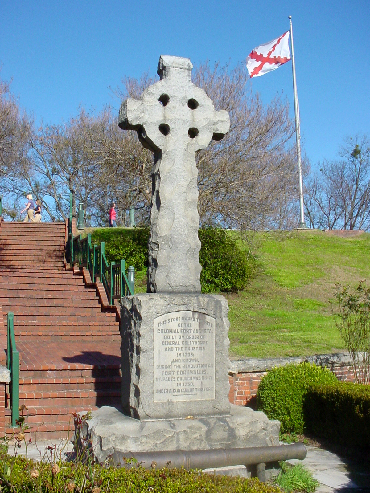 Augusta, Georgia, USA. 1901 Celtic cross behind Saint Paul's Episcopal Church commemorating the original location of Fort Augusta. Steps behind the cross lead to the upper (levee) level of Riverwalk Augusta, located along the Savannah River. The Spanish flag is part of a series of historical flags (Spain being the first European nation to lay claim to the area now occupied by Augusta).